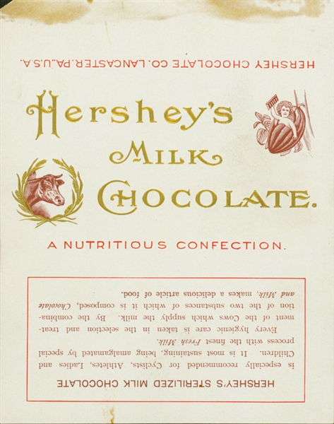 Hershey's Milk Chocolate wrapper (1900-1903)